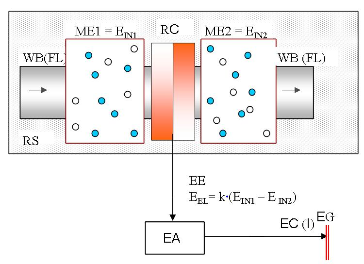 Molecular power - Enlarged block diagram of th molecular power system. Describes the structure and working principle of the system